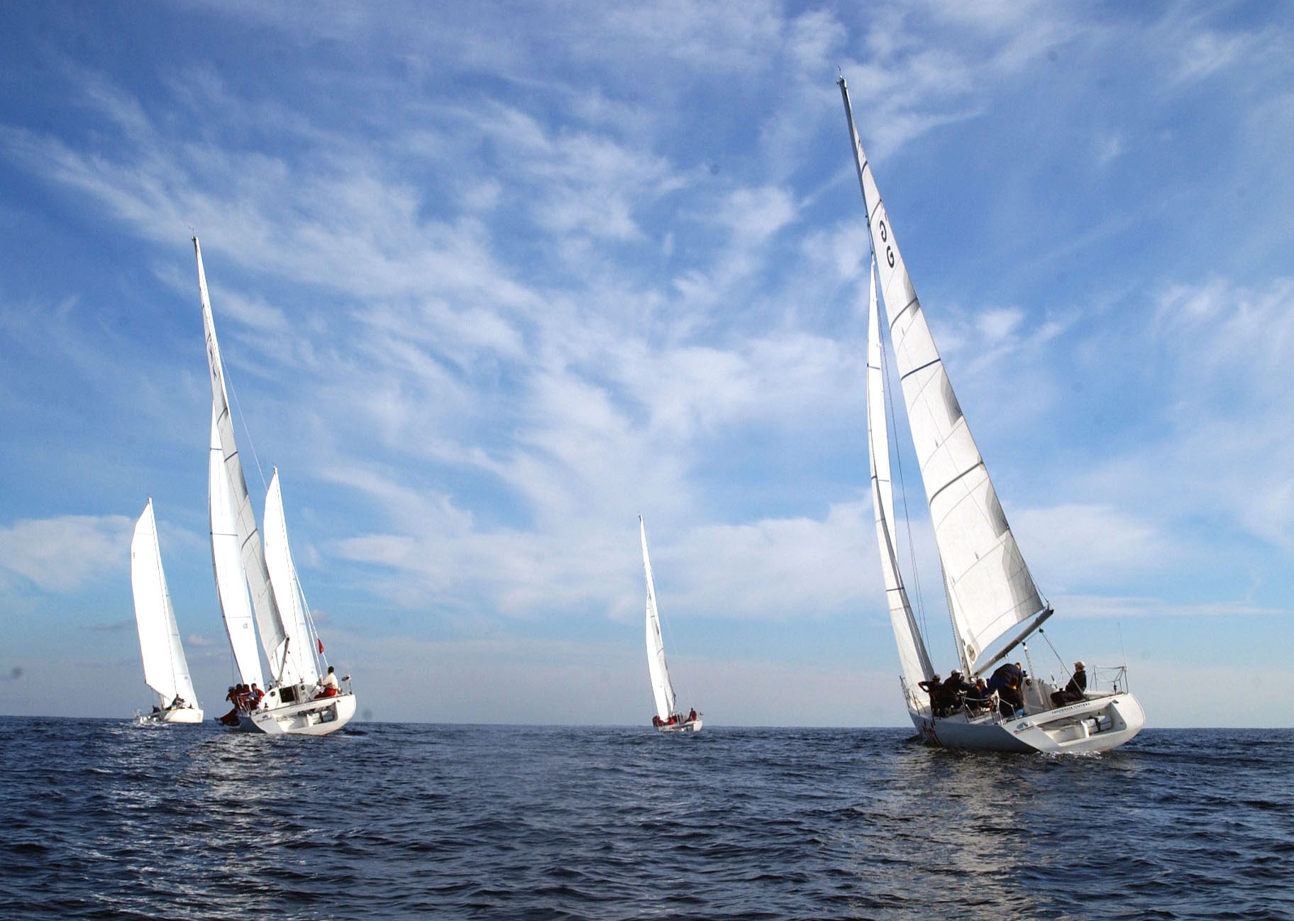 Catania, Sicily (Dec. 9, 2003) -- The U.S. Sailing team jockeys for position and tries to find the best wind in the 6th race of the 3rd World Military Games Sailing Competition. The Military World Games consists of 86 participating countries and are designed to promote "Peace through Sports.”